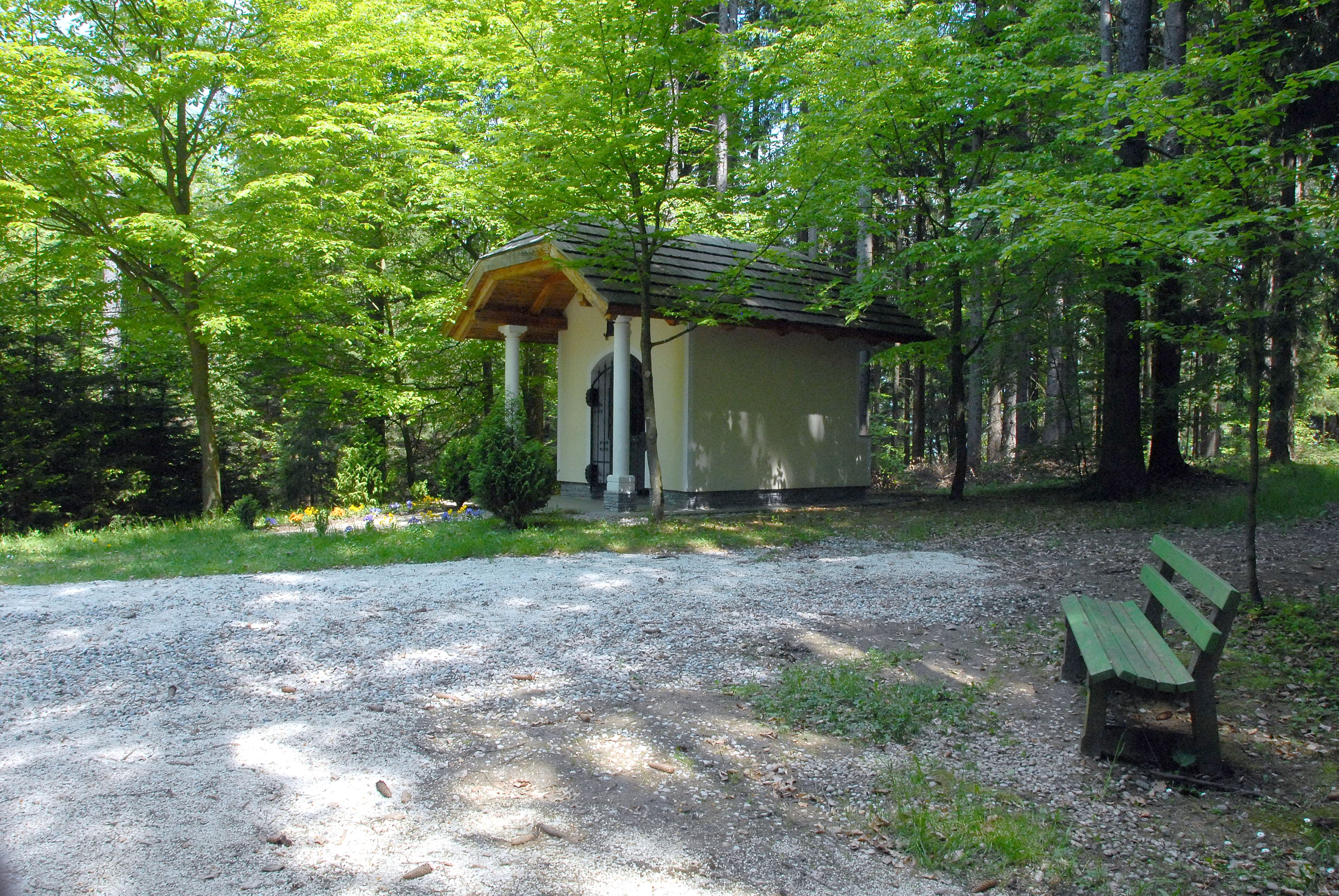 "Weiberwinkel" with wayside shrine at Grutschen in the community Griffen, district Voelkermarkt, Carinthia, Austria